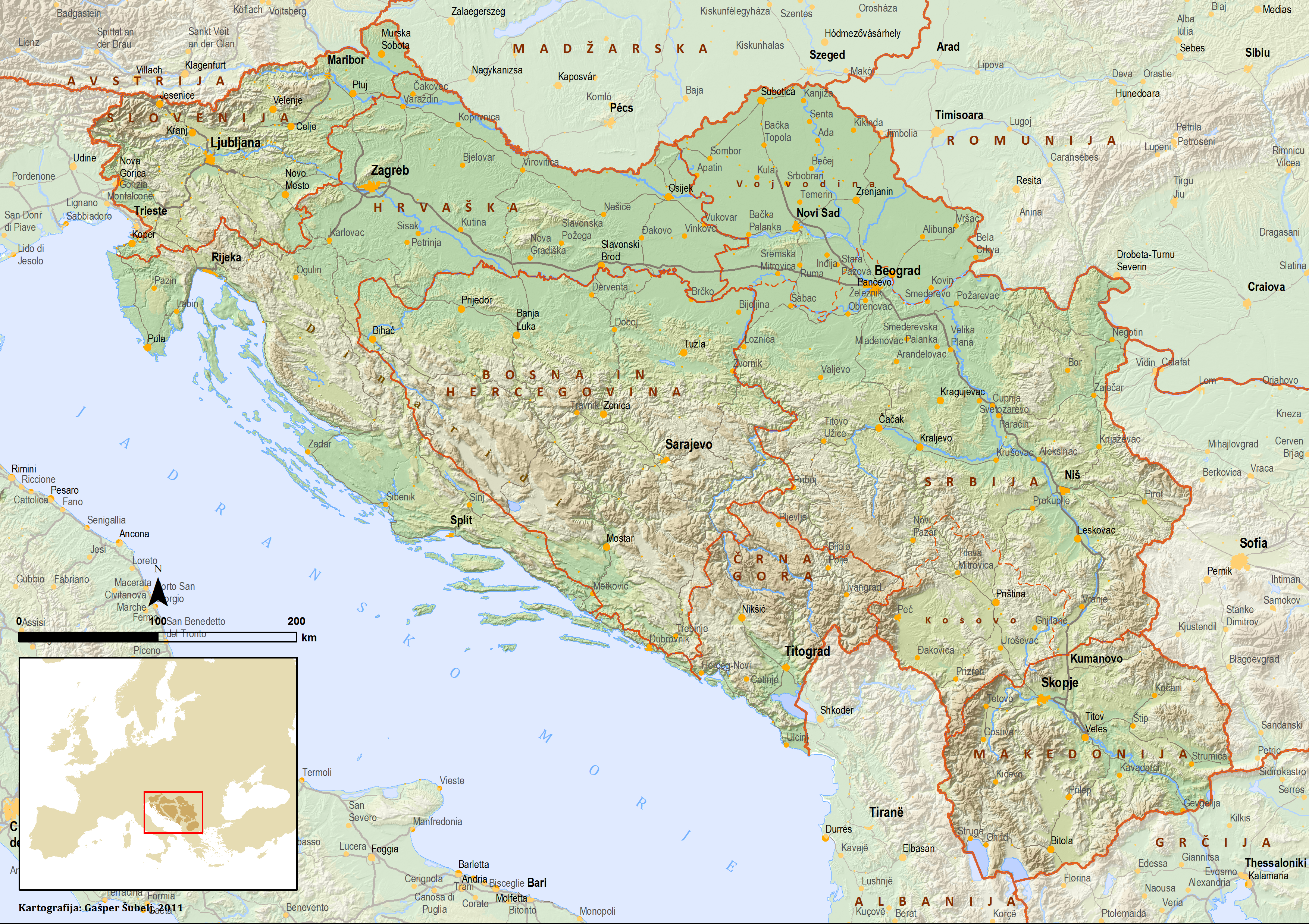 A general map of Socialist federal republic of Yugoslavia, as existed 1945-1991, in Slovenian